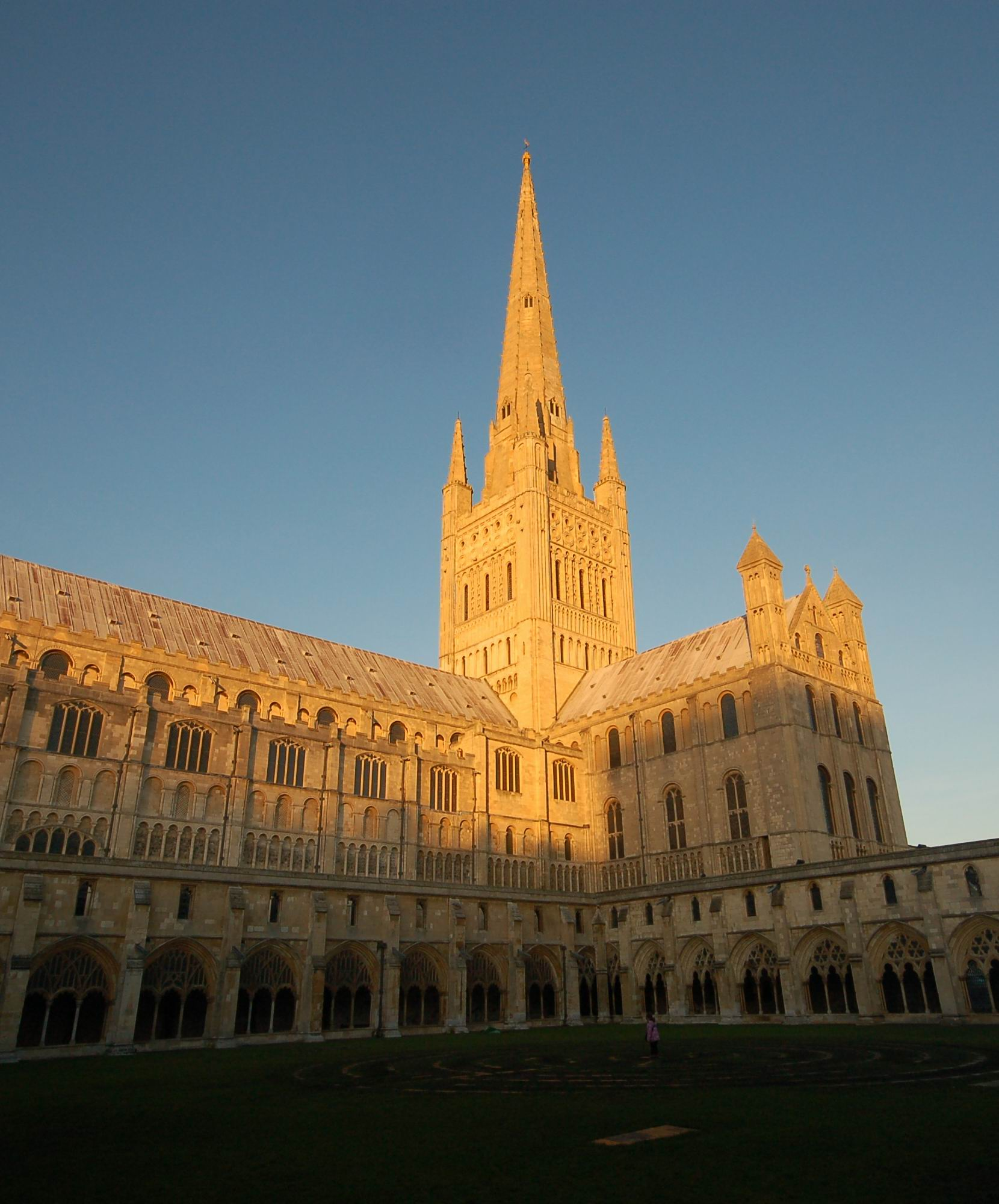 Norwich cathedral